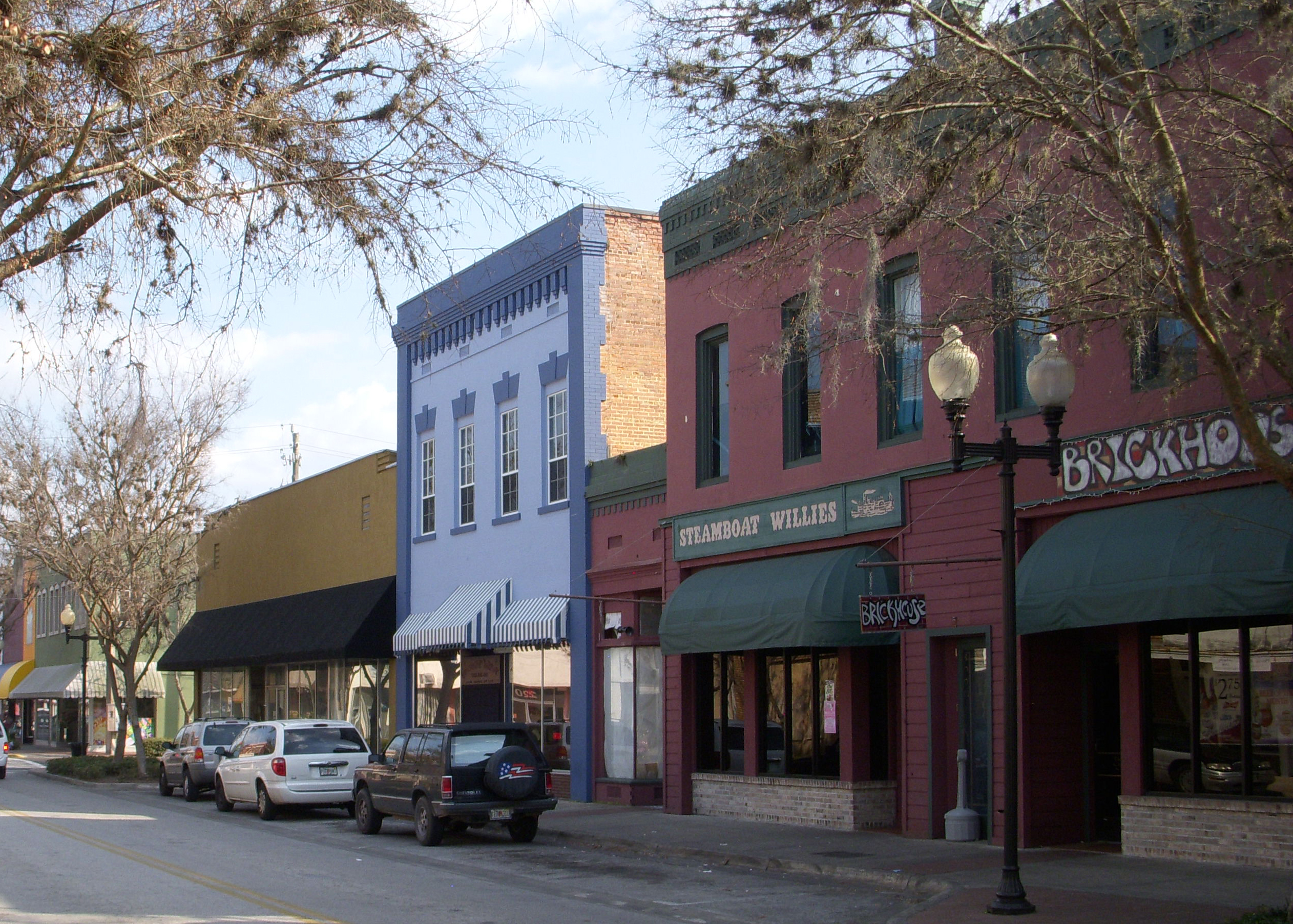 downtown Palatka. 3rd and St. johns